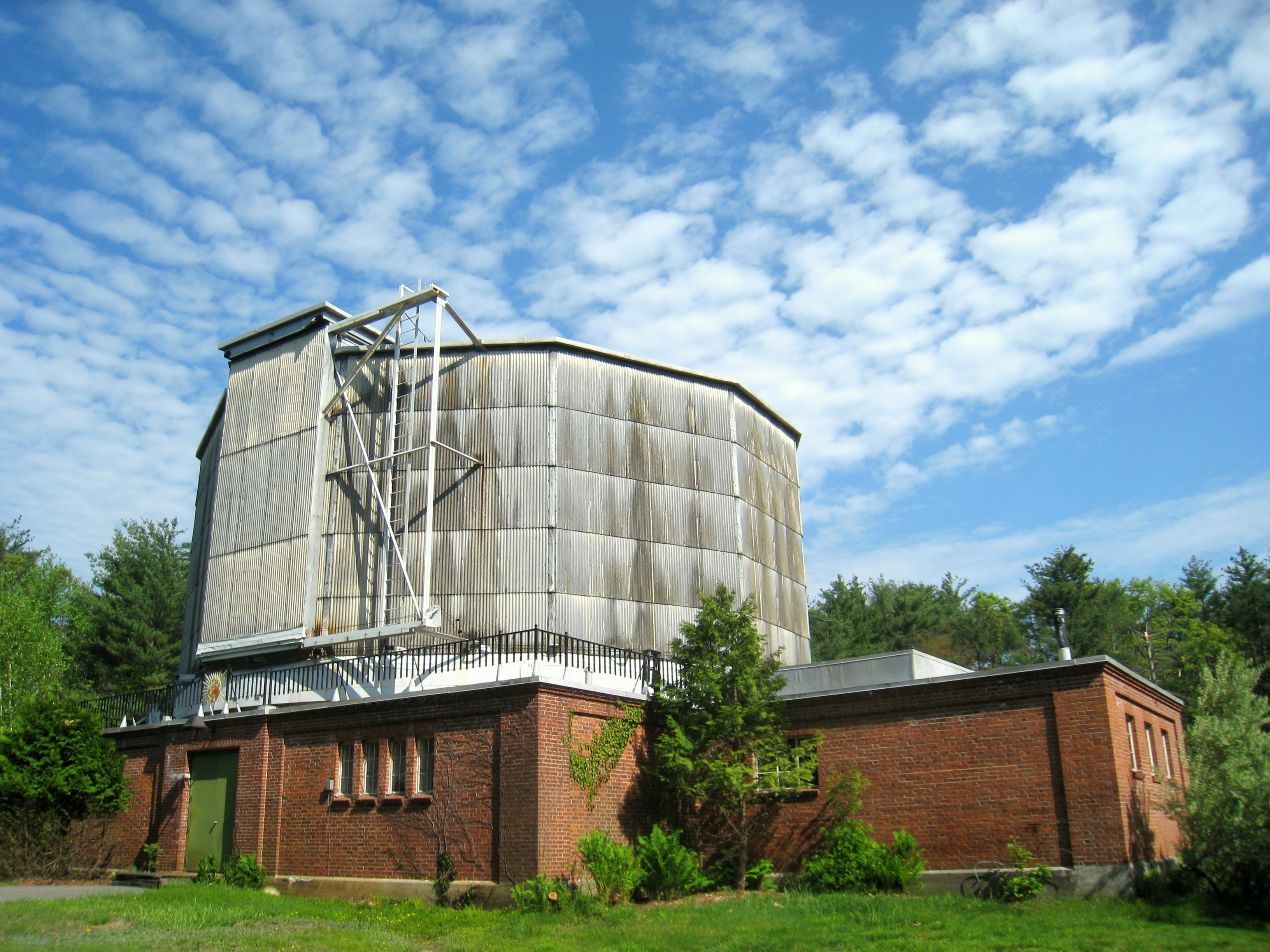 Oak Ridge Observatory (George R. Aggasiz Station), Harvard, Massachusetts; part of the Harvard-Smithsonian Center for Astrophysics (CfA) until August 19, 2005. Building housing the Wyeth 61-inch reflector.